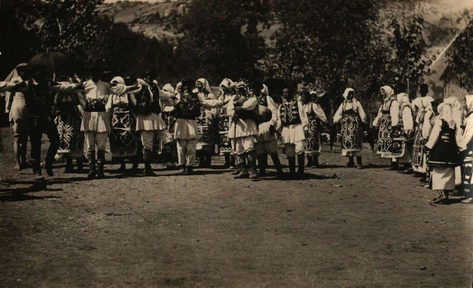 Matka, Macedonia